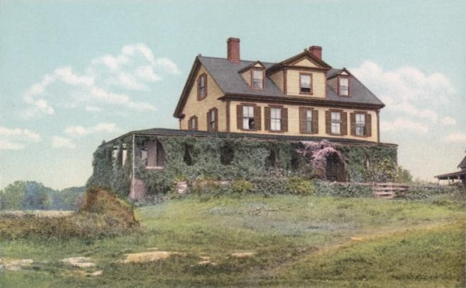 Celia Thaxter's Cottage, Appledore Island, Isles of Shoals, Maine. The cottage burned in the 1914 fire which destroyed The Appledore House hotel.